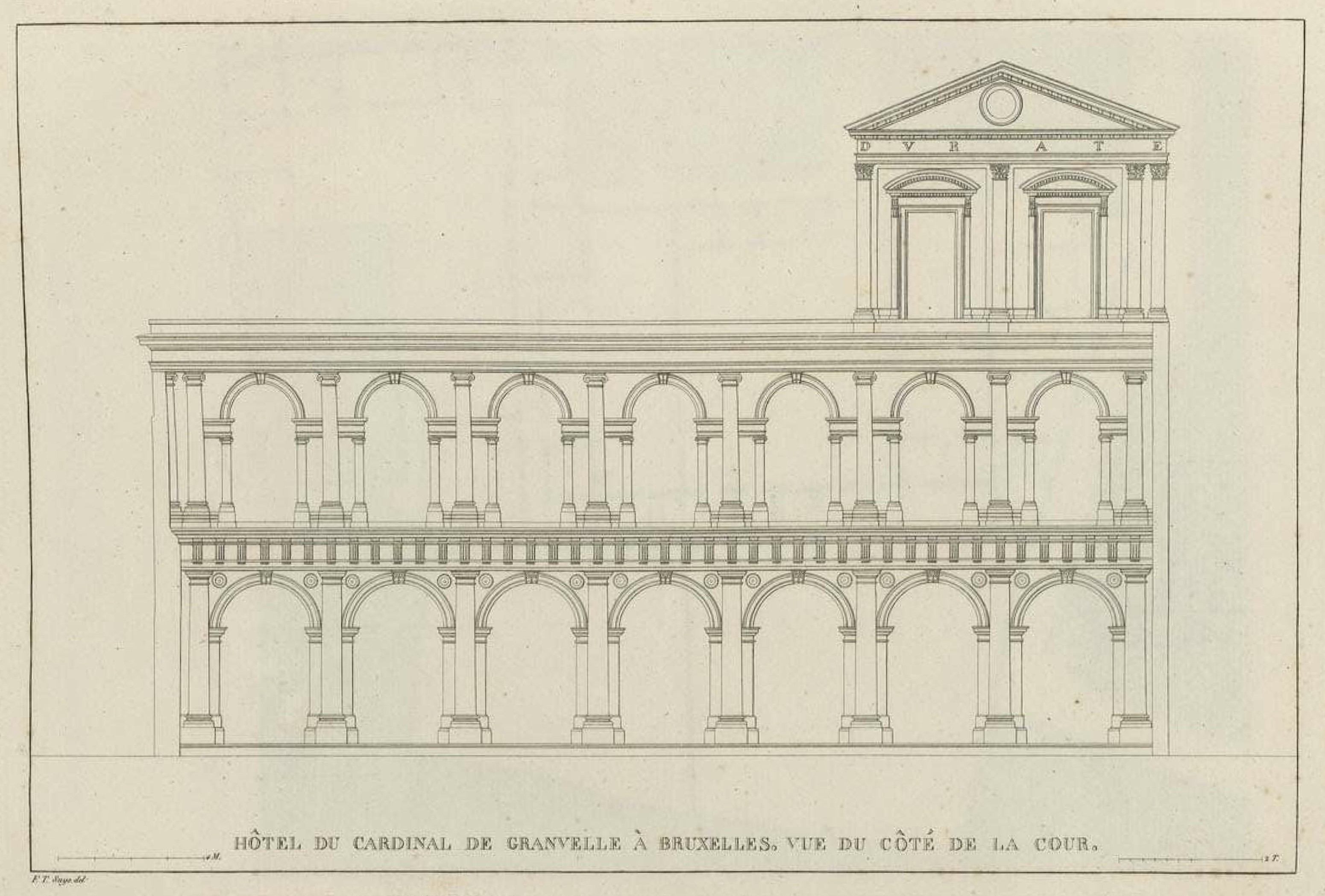 Pierre-Jacques Goetghebuer (1788-1866) became professor of architecture in Ghent, after his studies for architectural drawing at the local art academy. From 1817 he started working on a publication with images of the most remarkable buildings from the newly created United Kingdom of the Netherlands. This book would include both old and contemporary, neoclassicist buildings. Most of the 120 plates depict buildings from the Southern Netherlands, especially Brussels and Ghent. Goetghebuer executed the engravings based upon his own sketches or designs by the architects themselves. Other artists finished the engravings in aquatint. Goetghebuer published this collection of engravings in 1827 with publisher André Benoît II Steven, and he dedicated them to King William I. Many buildings in this book have since disappeared, hence its significant historical importance. Also published in Dutch, with the title Verzameling der merkwaardigste gebouwen in het Koningrijk der Nederlanden.